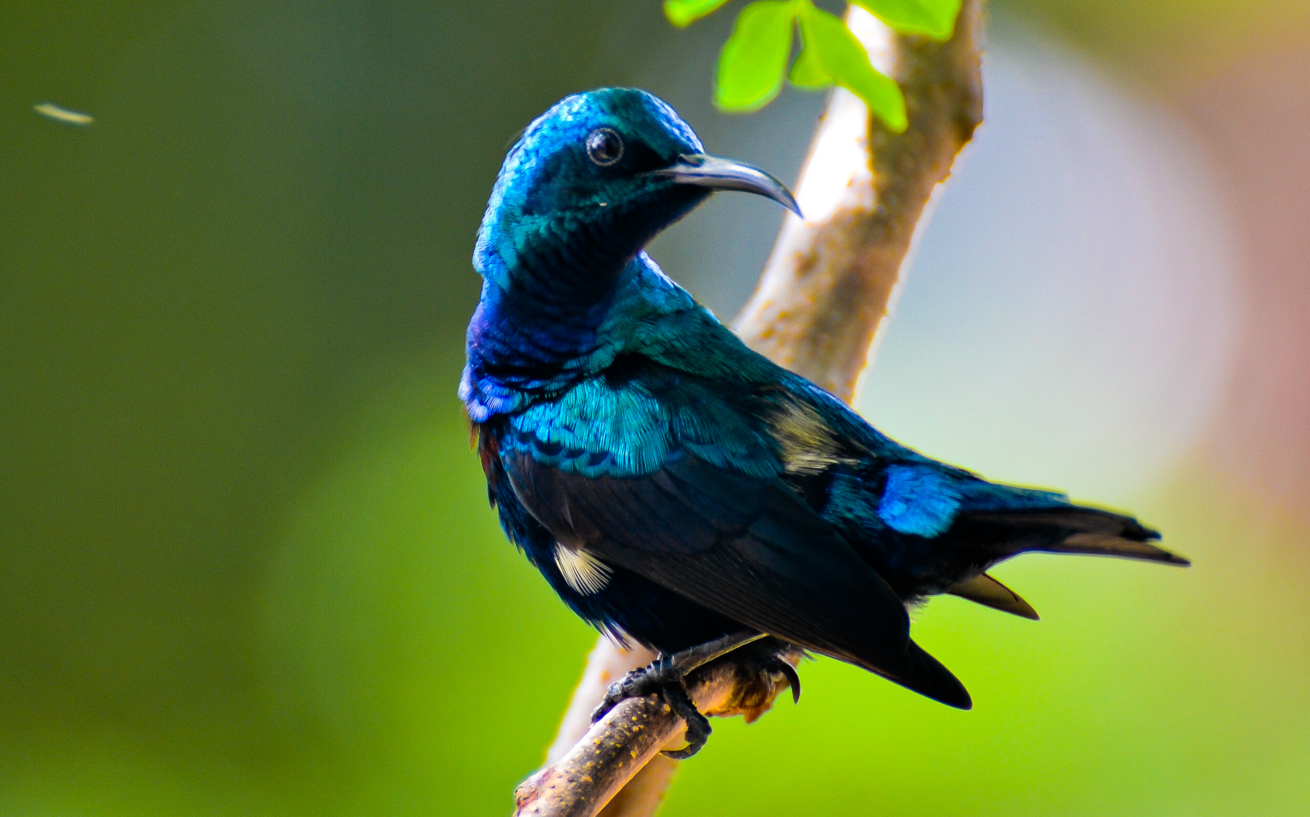 A male Purple Sunbird (Cinnyris asiaticus) on a Moringa oleifera tree in Tirunelveli, Tamil Nadu, India